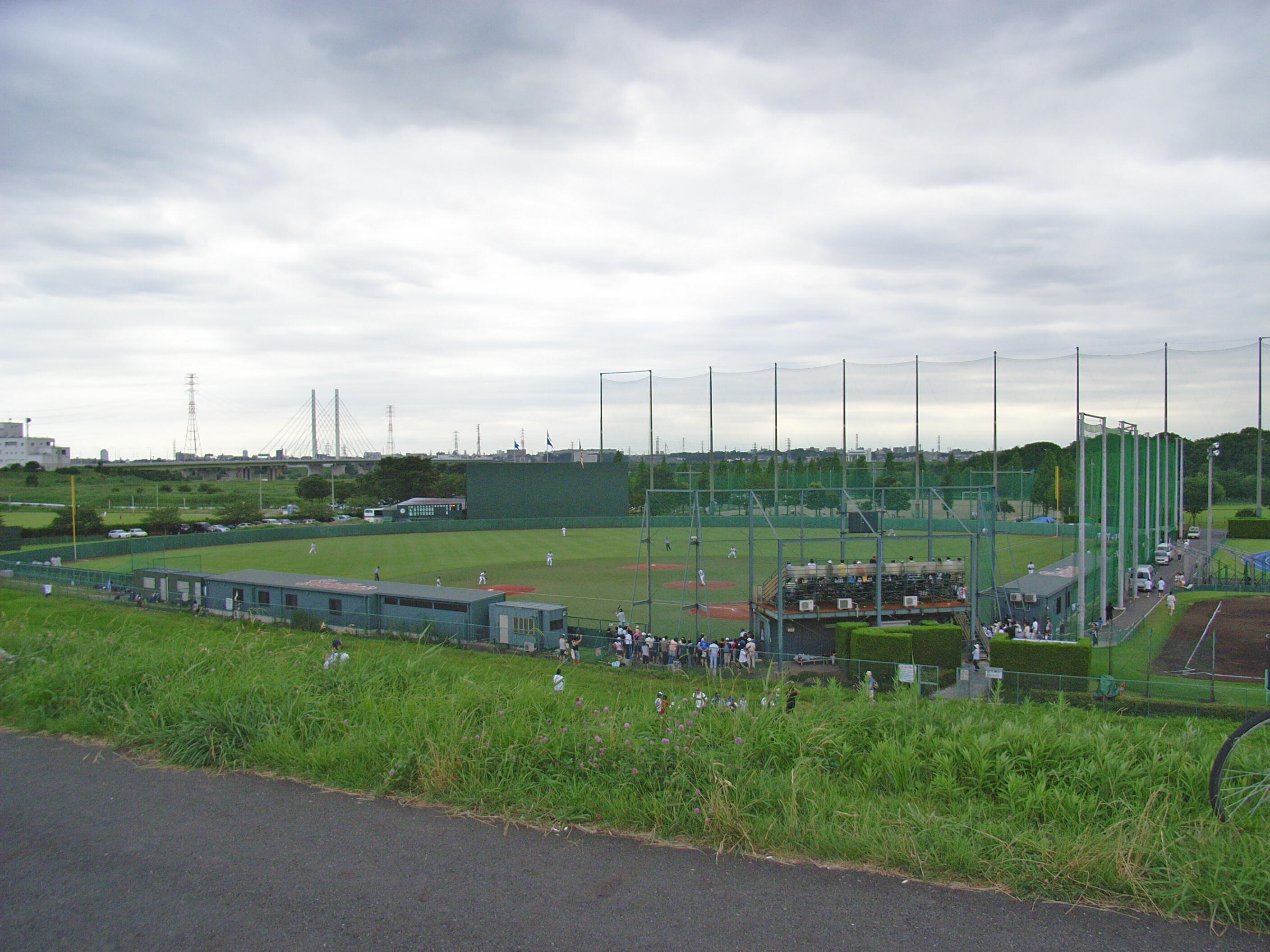 Tokyo Yakult Swallows Toda Stadium in Toda City, Saitama Prefecture, Japan